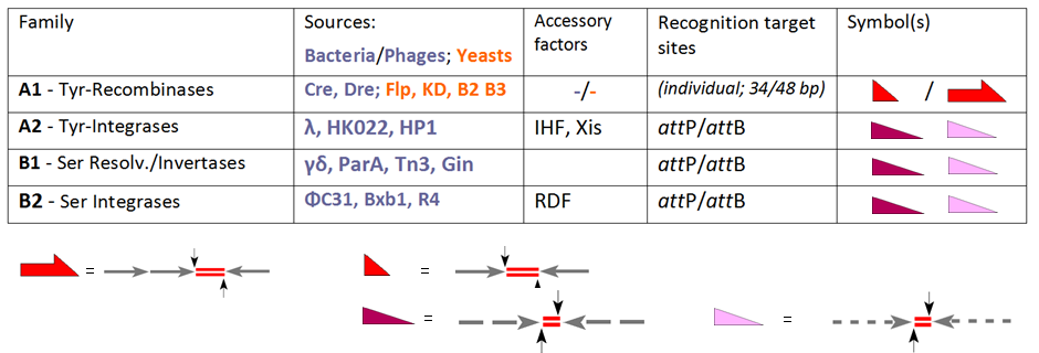 All enzymes recombine to target sites, which are either identical (subfamily A1) or distinct (phage-derived enzymes jn classes A2, B1 and B2). Whereas for A1 these sites have individual designations (FRT in case of Flp-recombinase, loxP for Cre-recombinase) the terms attP and attB (attachment sites on the phage and bacterial part, respectively) are valid in the other cases. In case of A1 we have to deal with short (usuall 34 bp long) sites consisting of two (near-)identical 13 bp arms (arrows) flanking an 8 bp spacer (the crossover region, indicated by red line doublets).